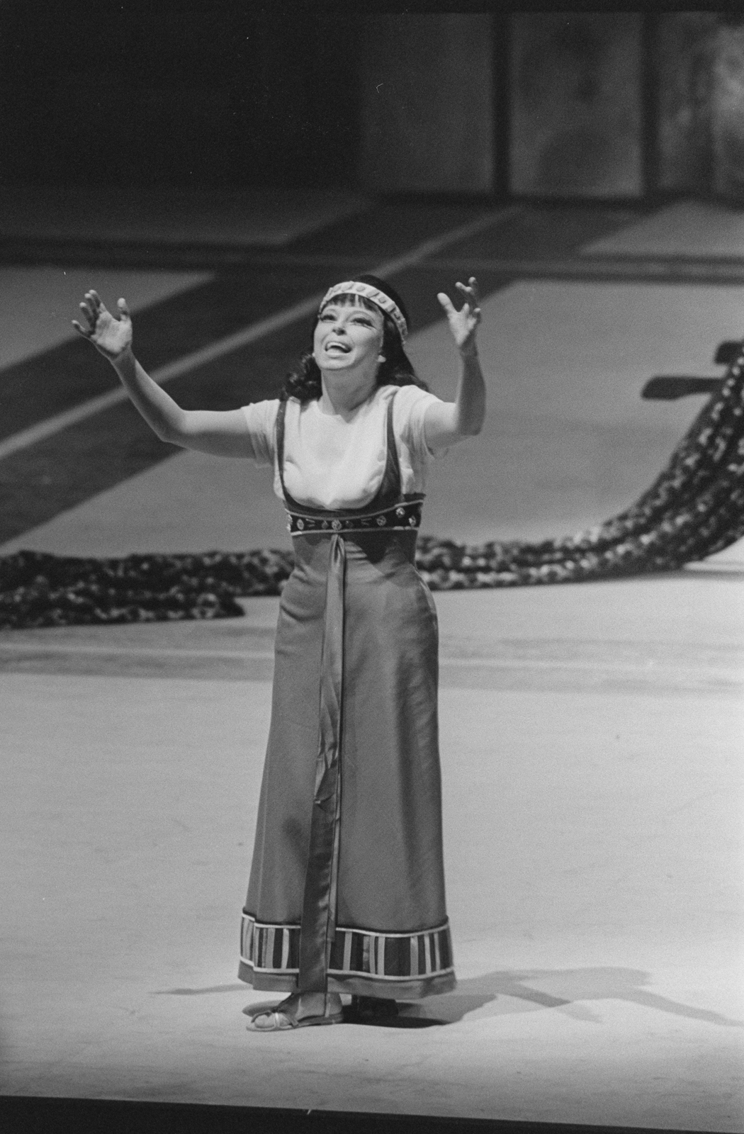 Hungarian-German soprano Sylvia Geszty as Cleopatra in Händel's "Giulio Cesare in Egitto", Berlin, 1970. Pisarek, Abraham: Scenes from "Julius Caesar", Musical drama in three acts by Georg Friedrich Händel with text by Nicola Francesco Haym. German State Opera Berlin, dress rehearsal 07.05.1970 and premiere 09.05.1970, 1970.05.07 / 1970.05.09 Series: Julius Caesar Description: With Theo Adam in the title role, Peter Schreier as Sextus, Sylvia Geszty as Cleopatra and others PERSONS AND CORPORATIONS: Presentation: German State Opera Berlin LOCATION: Performance Location: Berlin Add to Favorites PERMALINK: Author of the metadata: German Photo Library